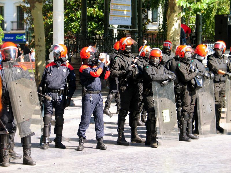 Ertzaintza officers with riot control equipment in Donostia - San Sebastián